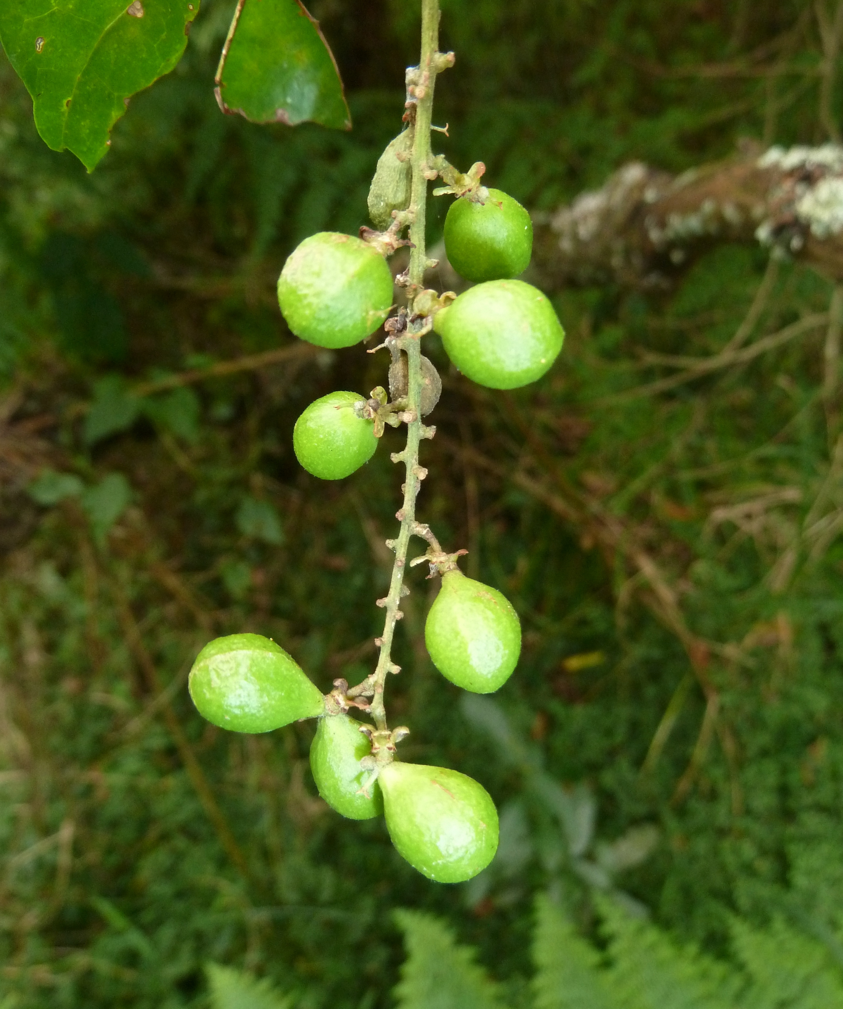 Fruit of a Forest false currant in Krantzkloof Nature Reserve, KwaZulu-Natal